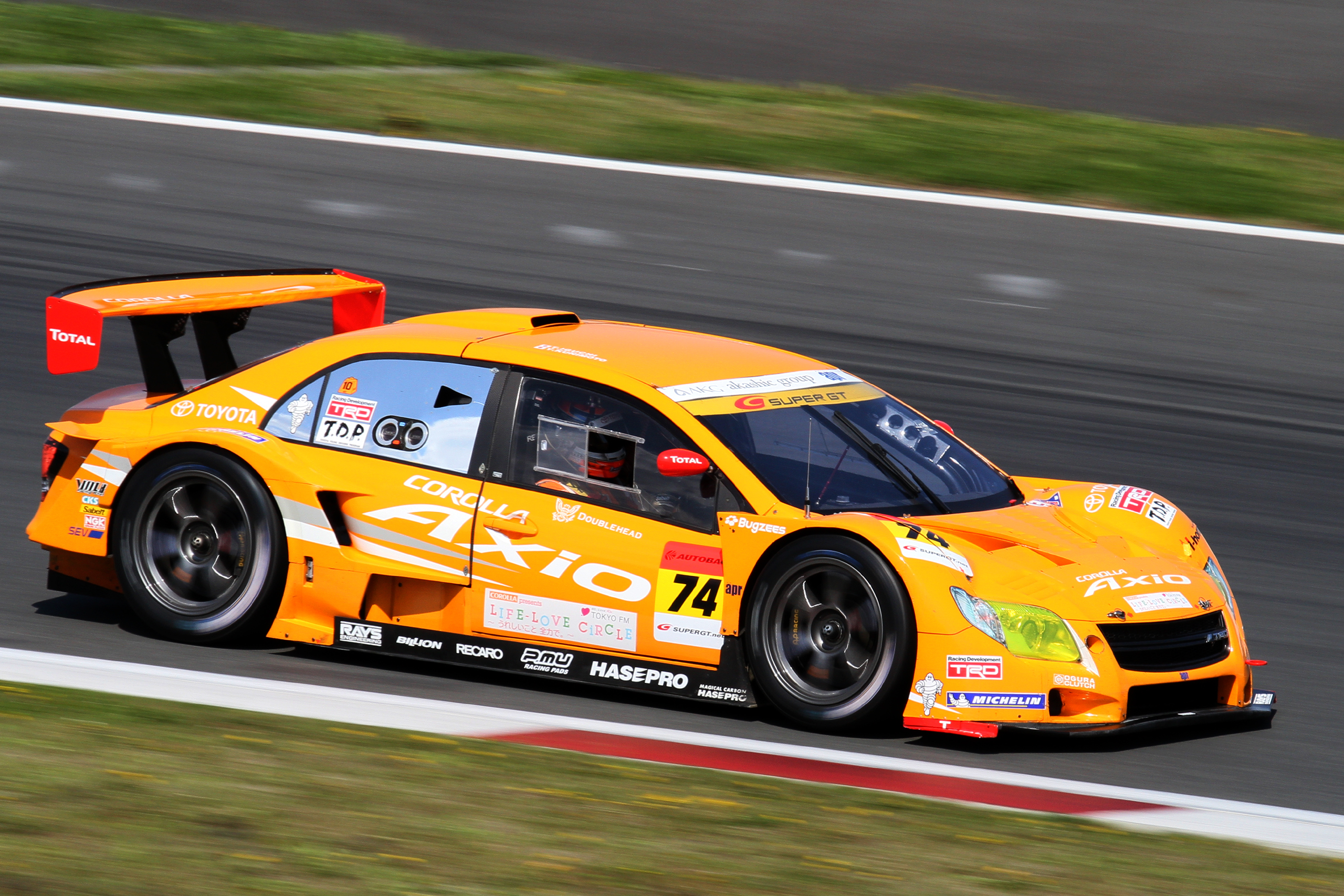 Super GT 2010 Rd.3 Fuji GT 400km: Yuji Kunimoto (apr) driving the Corolla Axio apr GT during qualify session.